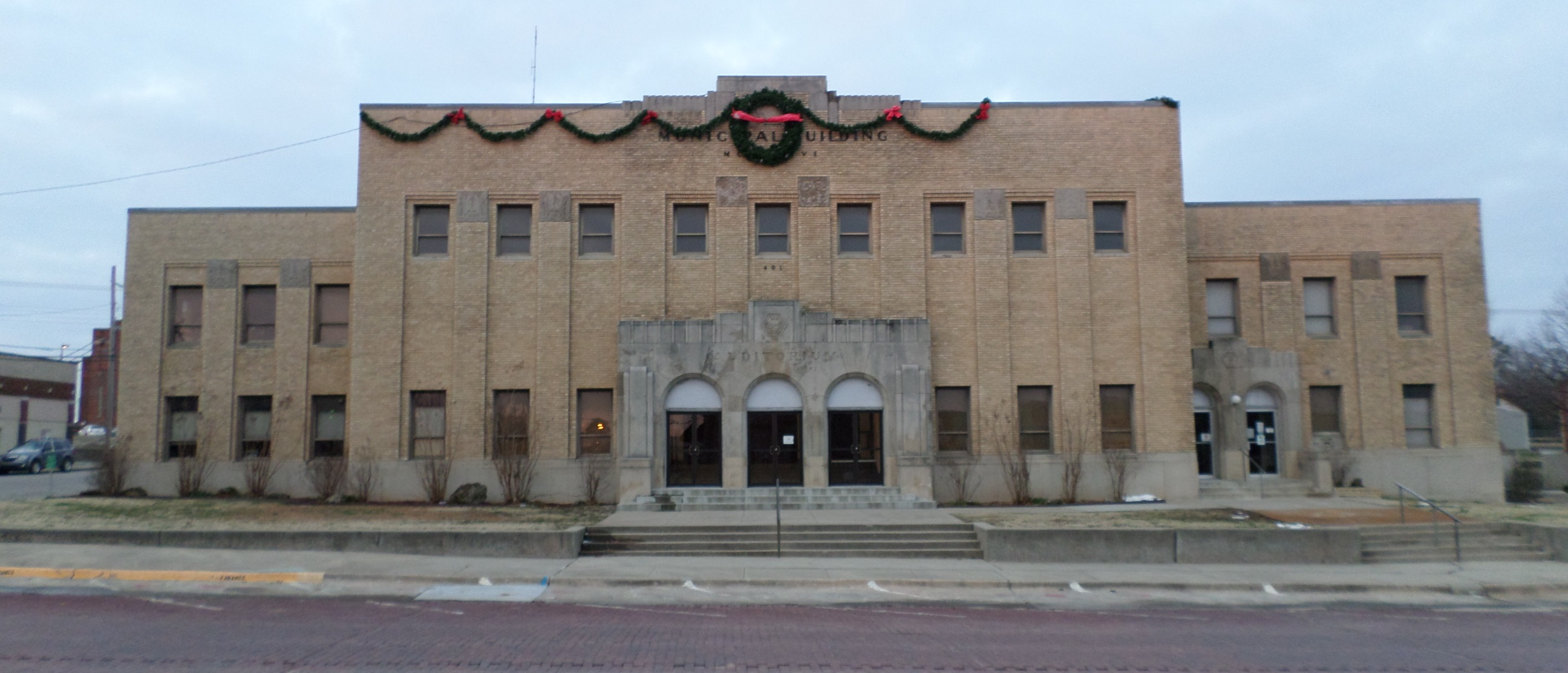 The Seminole Municipal Building, located at 401 N. Main St., Seminole, Oklahoma. It was listed on the National Register of Historic Places in 2015.